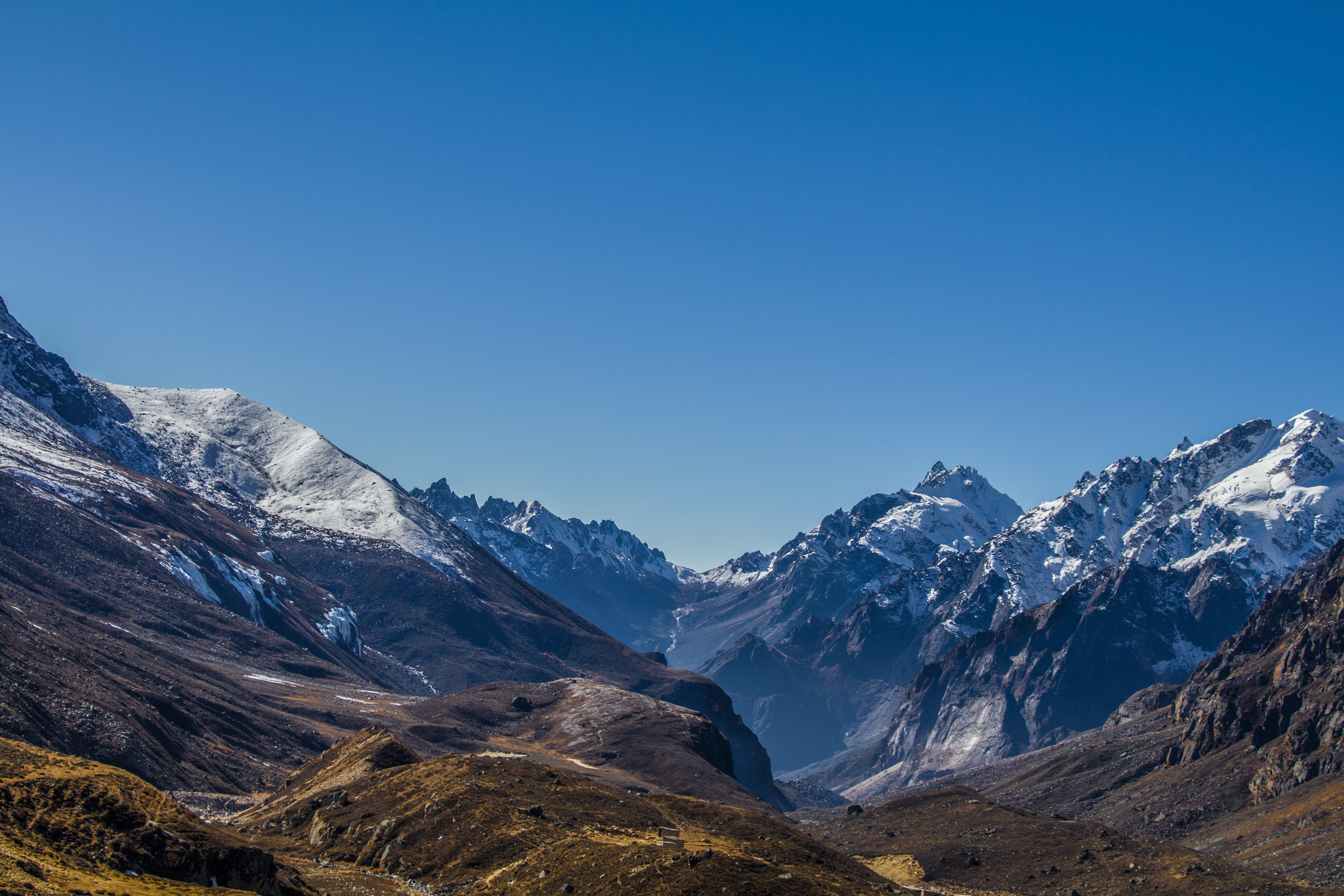 Mighty Himalaya